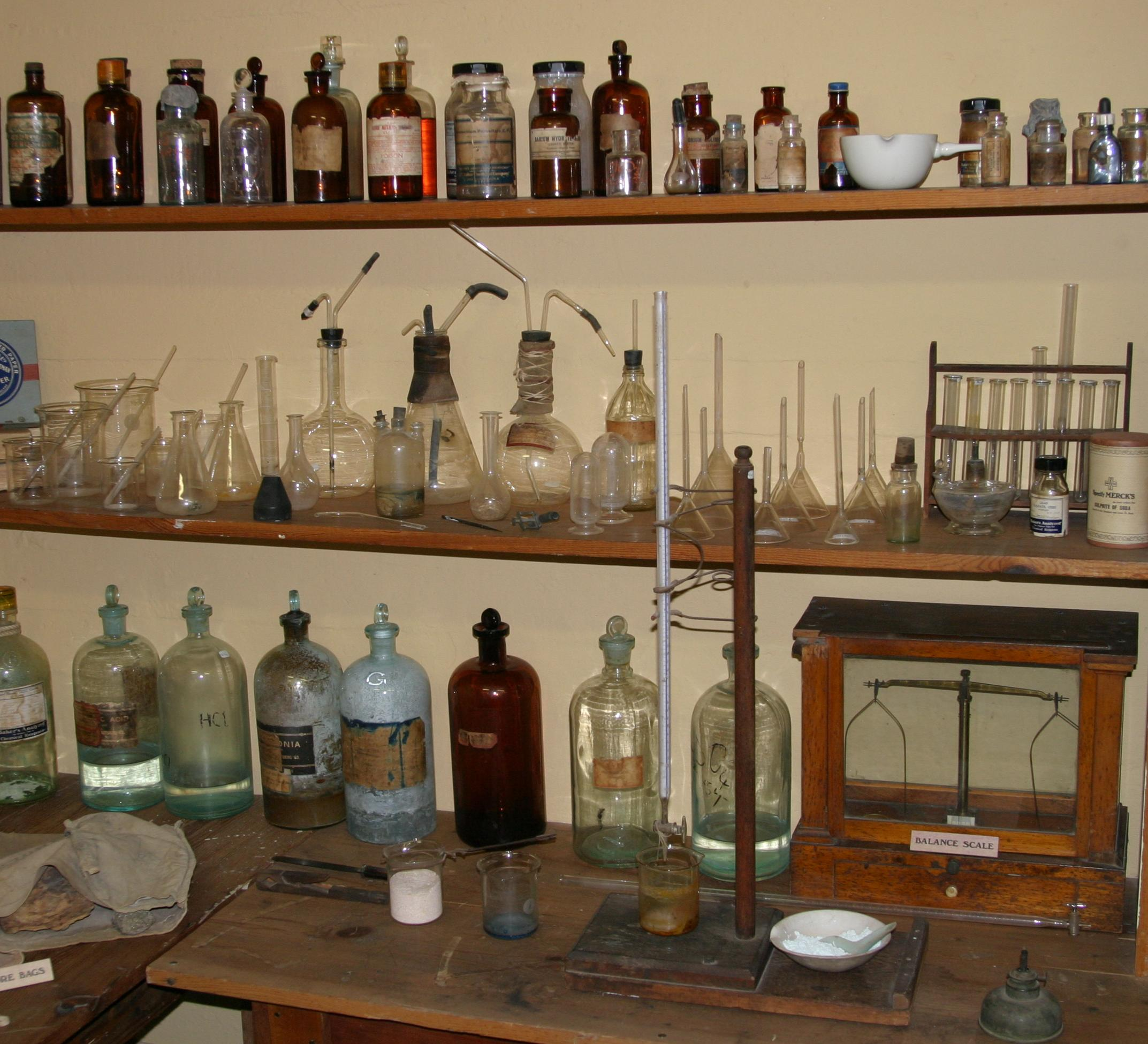 Historical (gold & silver) assay lab in Tombstone Courthouse State Historic Park, Tombstone, AZ. Taken 8/12/03 by Pretzelpaws with a Canon 10D camera and cropped using the Gimp.